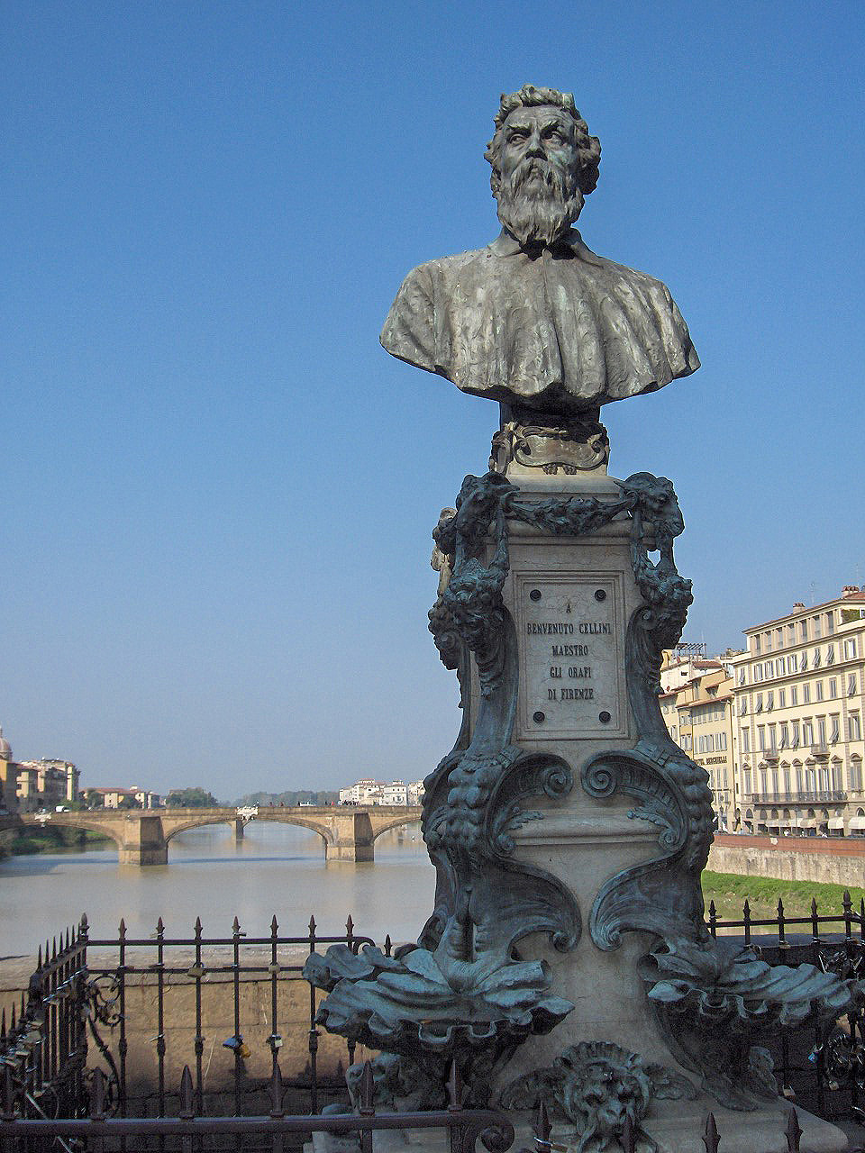 Bust of Benvenuto Cellini, by Raffaello Romanelli (1901), at the centre of the Ponte Vecchio, Firenze, Italy.